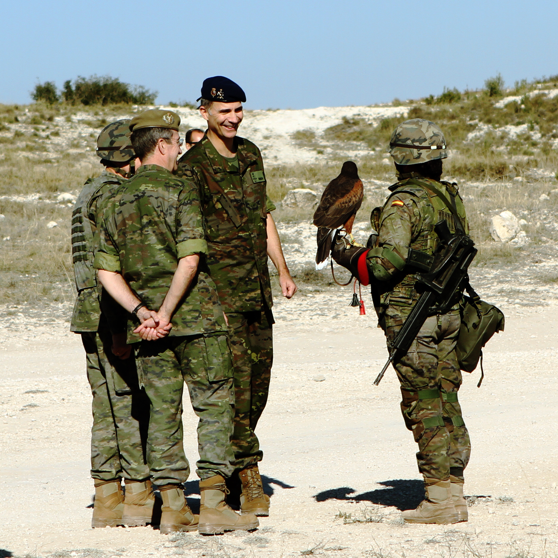 Trident Juncture 2015 - Felipe VI and the Spanish Chief of Staff of the Army, Jaime Dominguez Buj, meet with the mascot of 7th Light (Air-transportable) Infantry Brigade “Galicia”. NATO photo by Henk van der Velde